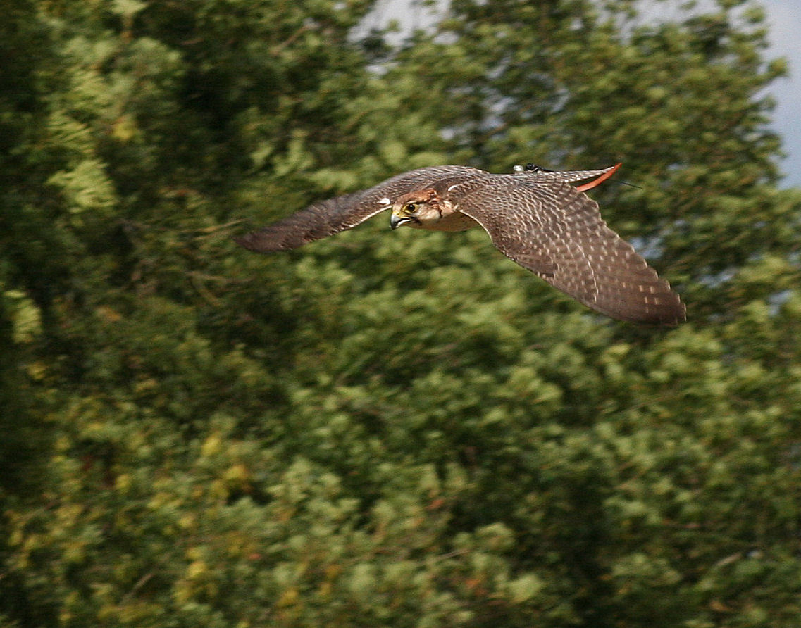 A domestic Lanner Falcon (Falco biarmicus) in mid-flight.